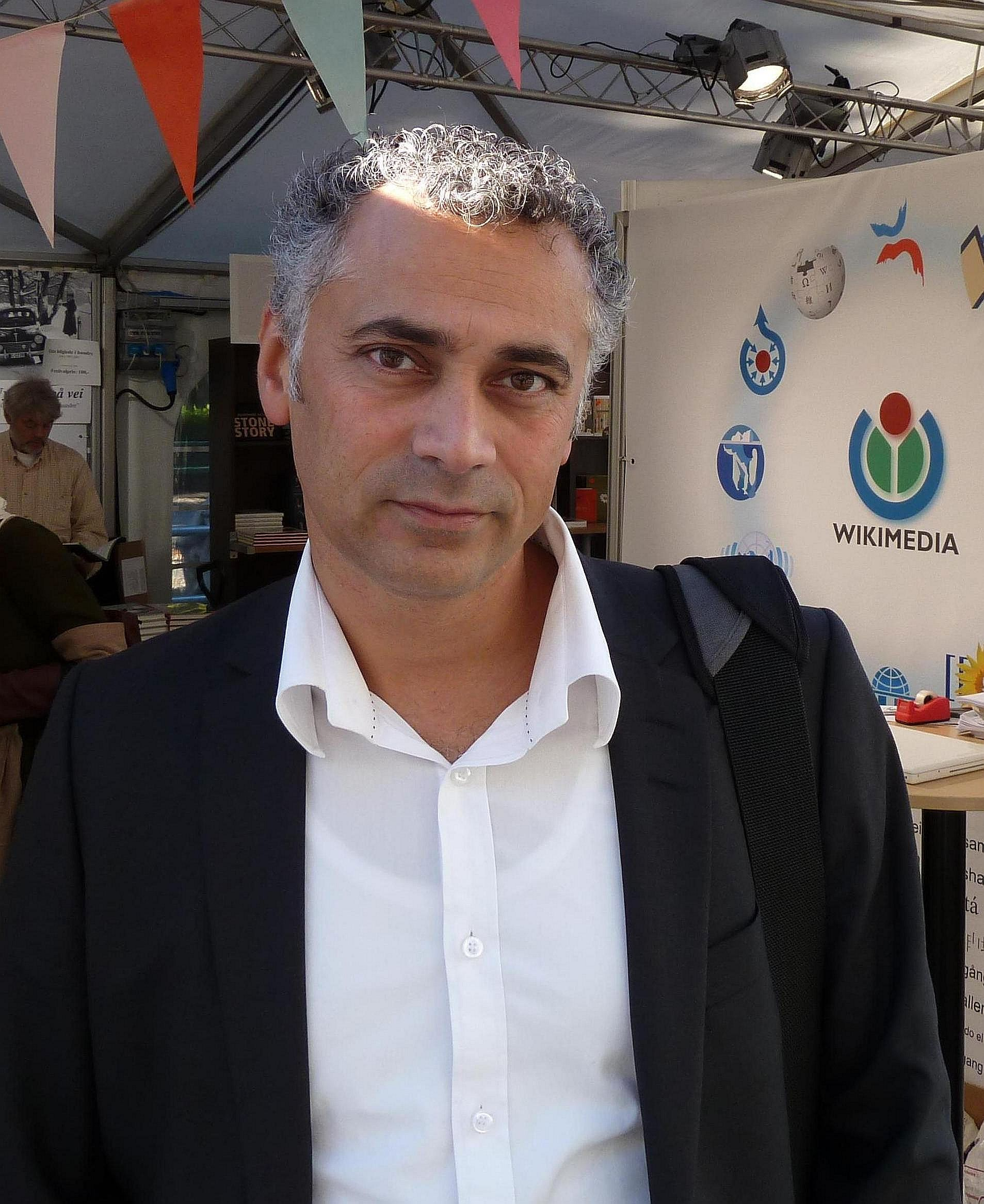 Norwegian historian and writer, Ivo de Figueiredo, at Oslo bokfestival, photographed at the Wikimedia Norway information booth on Karl Johan's street.